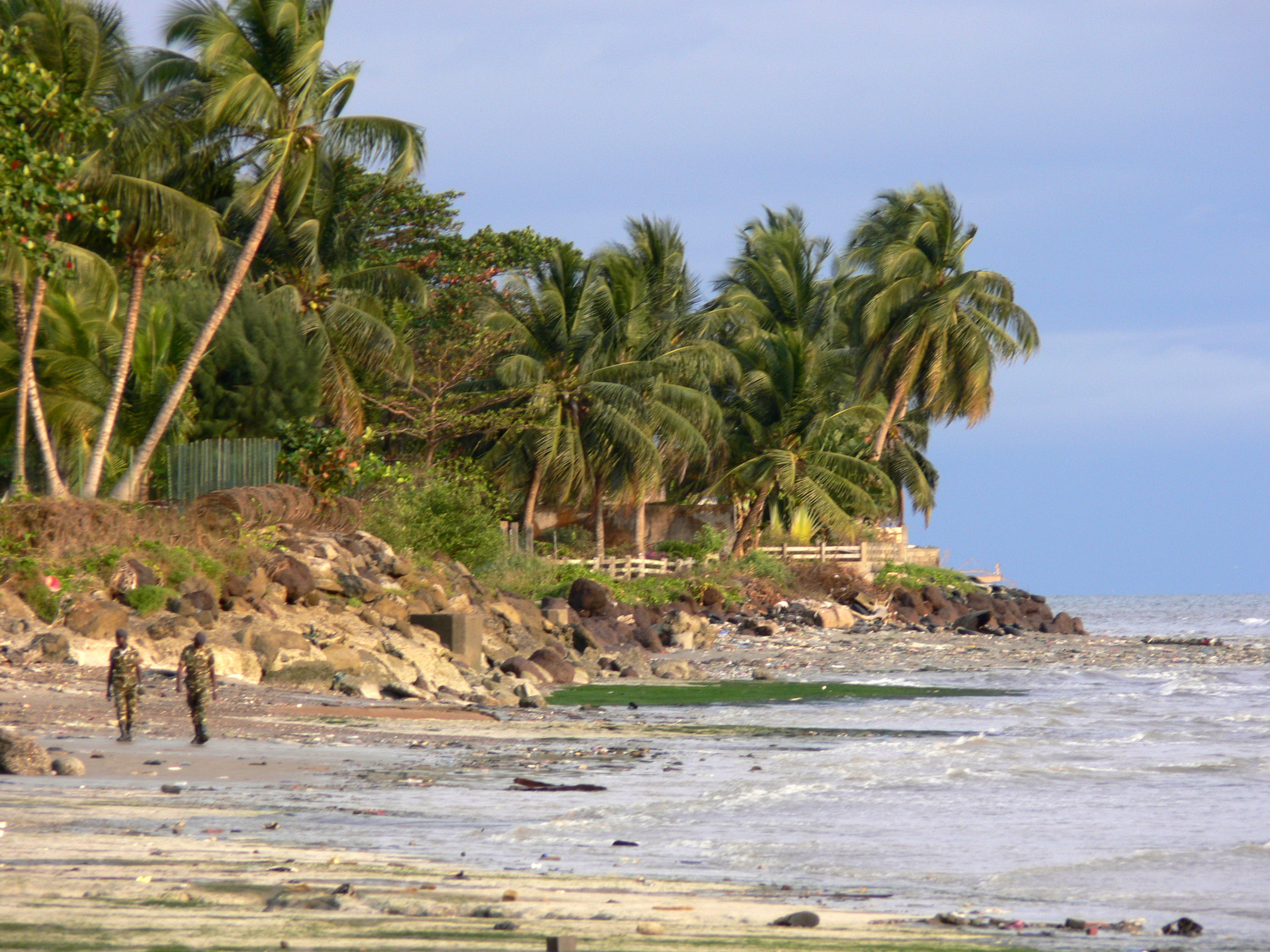 Beach scene in Libreville, Gabon